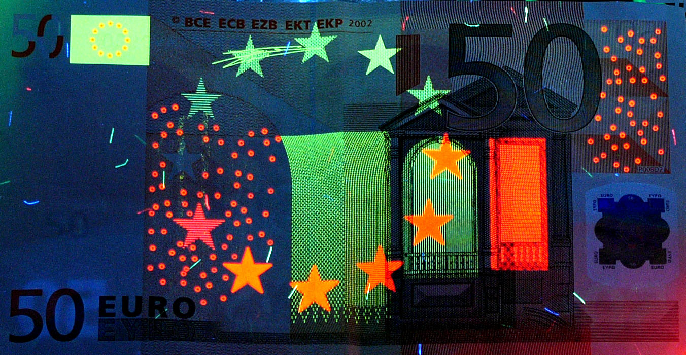 50-euro banknote under fluorescent light (UV-A)